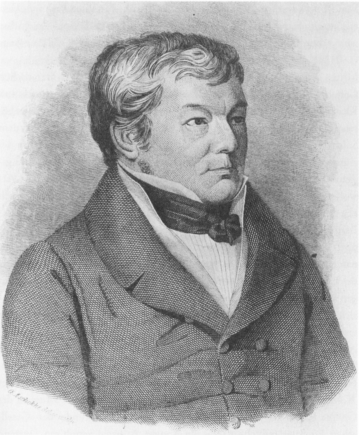 Portrait of Heinrich Zschokke from his autobiography "Eine Selbstschau" (1842).